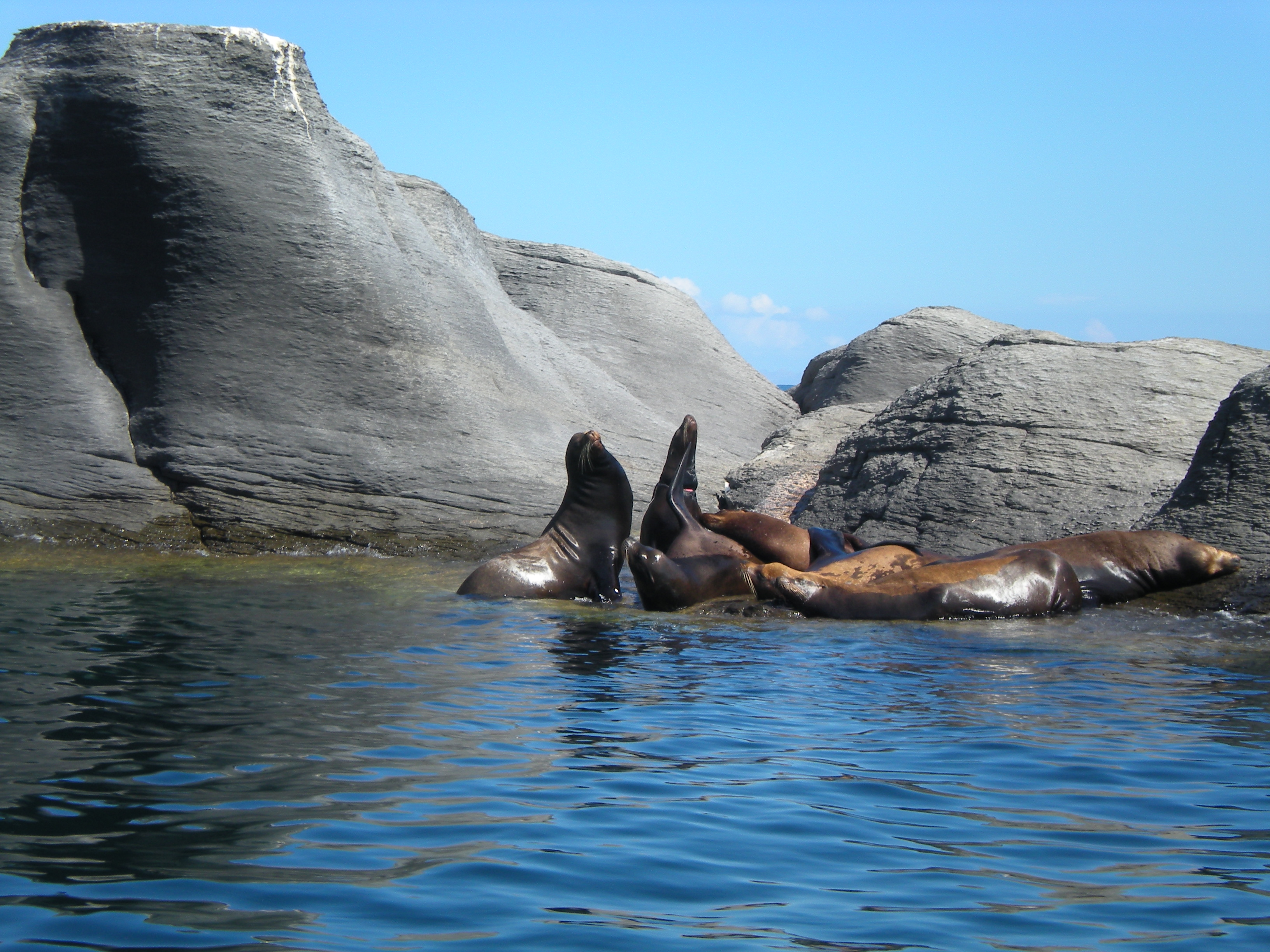 Sea Lions (Zalophus californianus) on the Isle of Coronado — in Baja California Sur state, Mexico. Within Bahía de Loreto National Park, near Loreto. Ramsar wetlands in Mexico of international importance (2,065 km2).